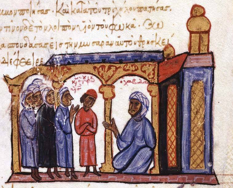 "Hambdan" (the Hamdanid Emir of Aleppo Sayf al-Dawla) at his court